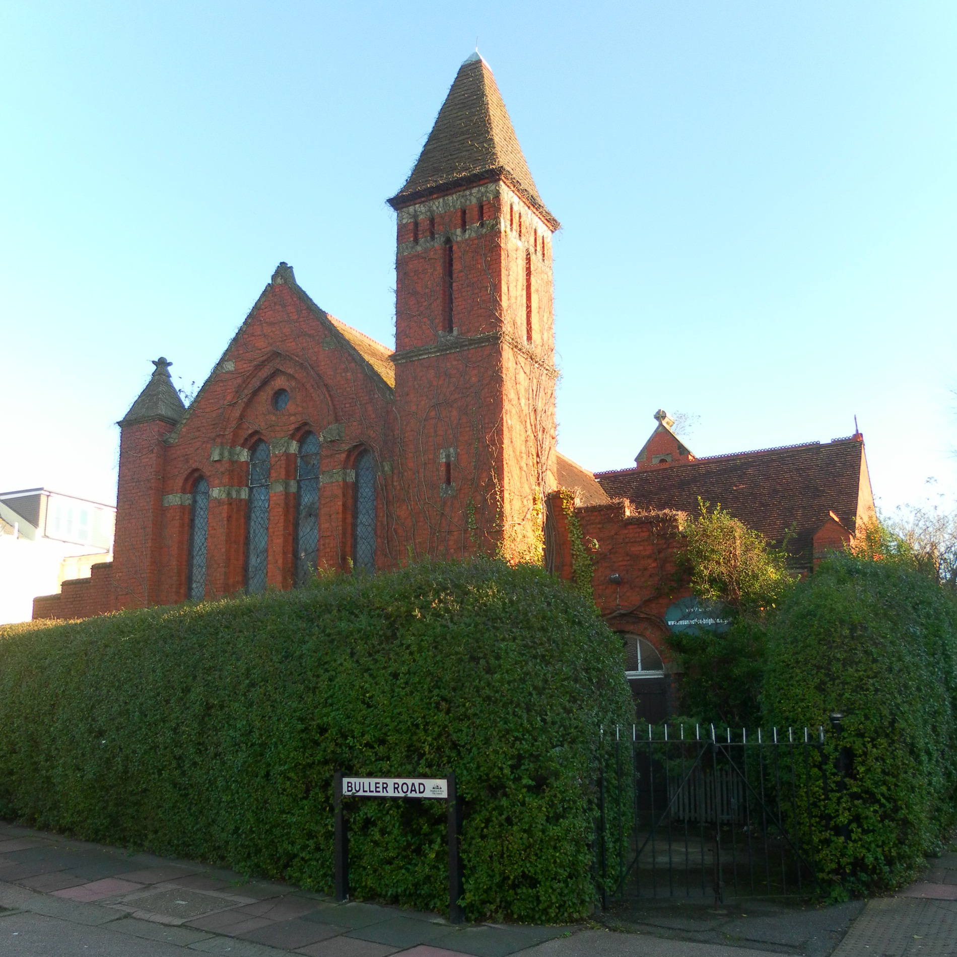 The former St Alban's Church, Coombe Road, Brighton, City of Brighton and Hove, England. Built between 1910 and 1914 in the Early English style, but declared redundant in November 2006.